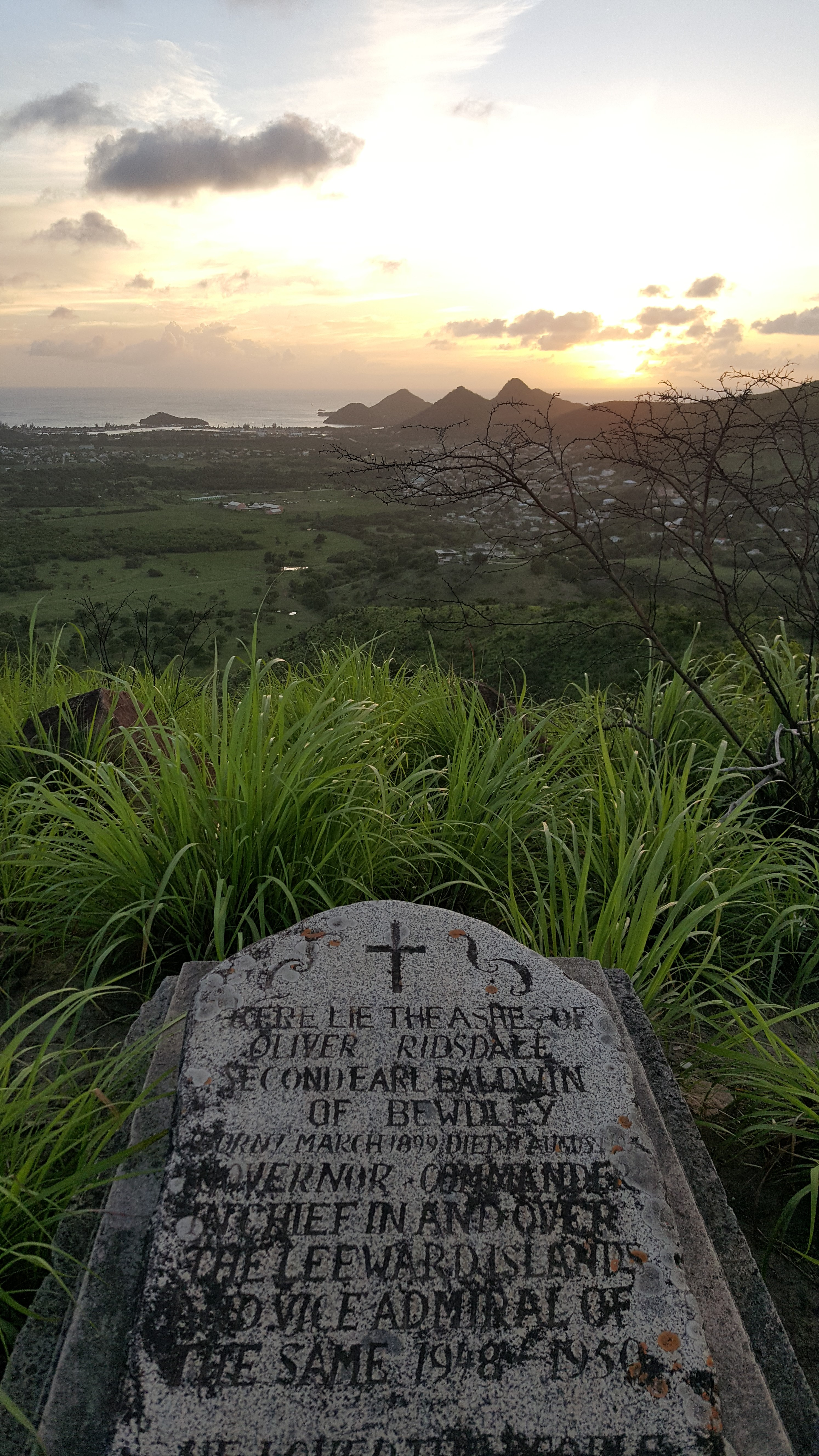 The marks the final resting place of Oliver Ridsdale (Baldwin) on a hilltop on the island of Antigua in the West Indies.